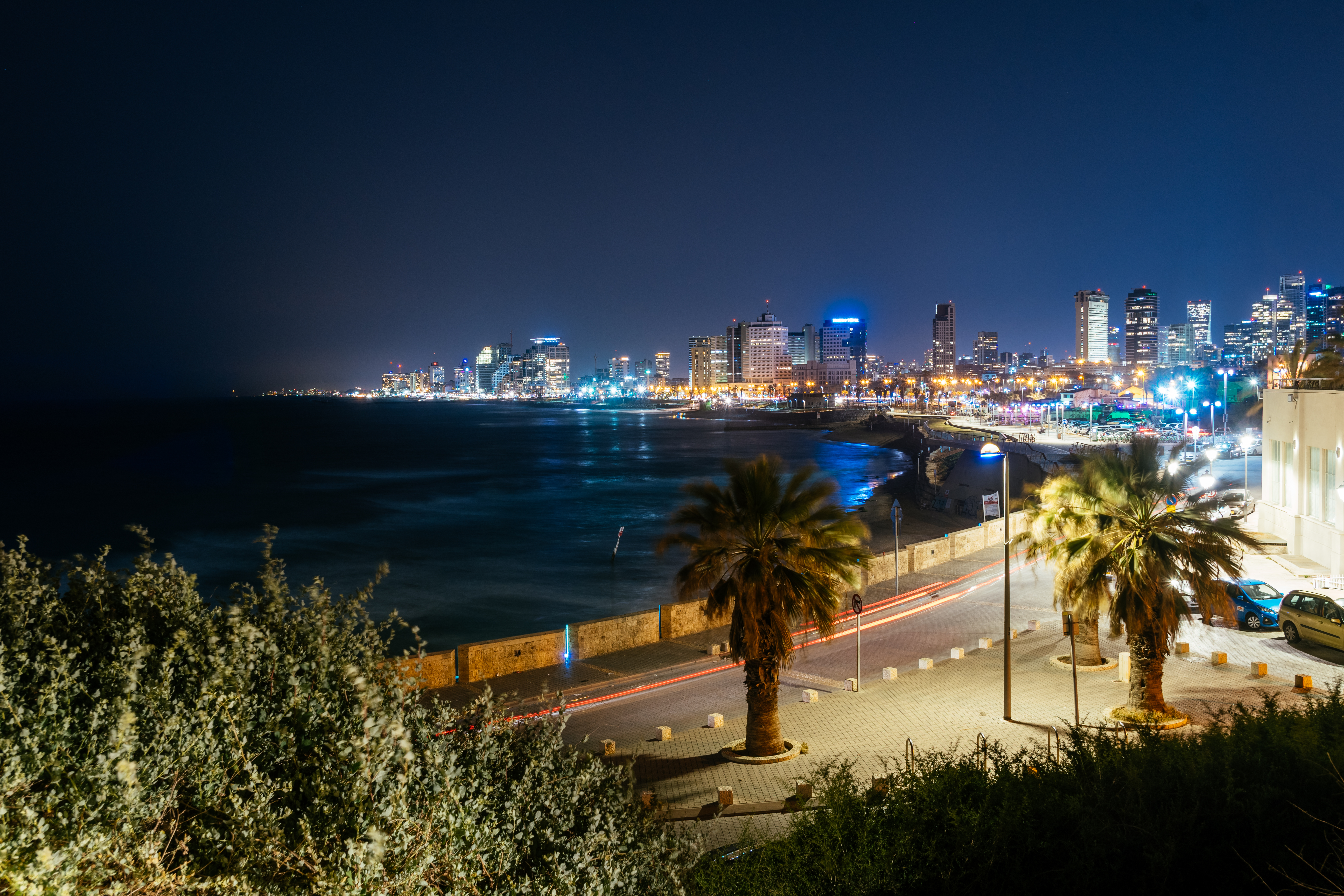 A panorama of Tel Aviv (Israel) at night.